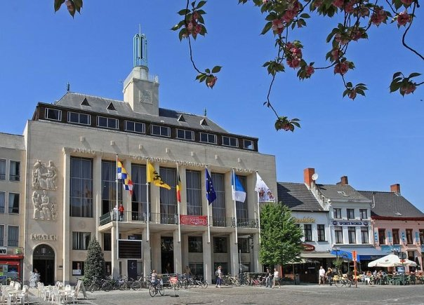 Stadhuis Turnhout